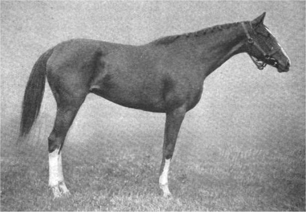 Tanya, American Thoroughbred racemare in 1904.